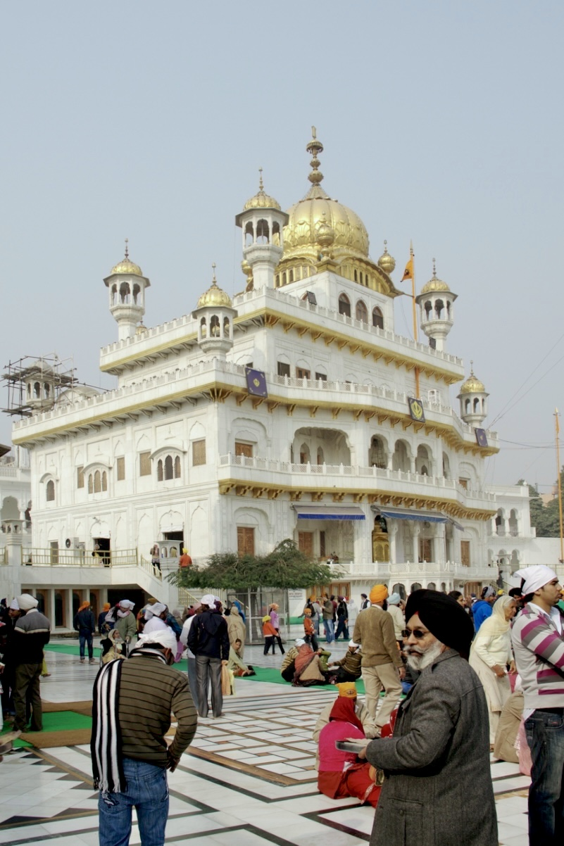 The Akal Takht Sahib, Golden Temple Complex, Amritsar, Punjab, India